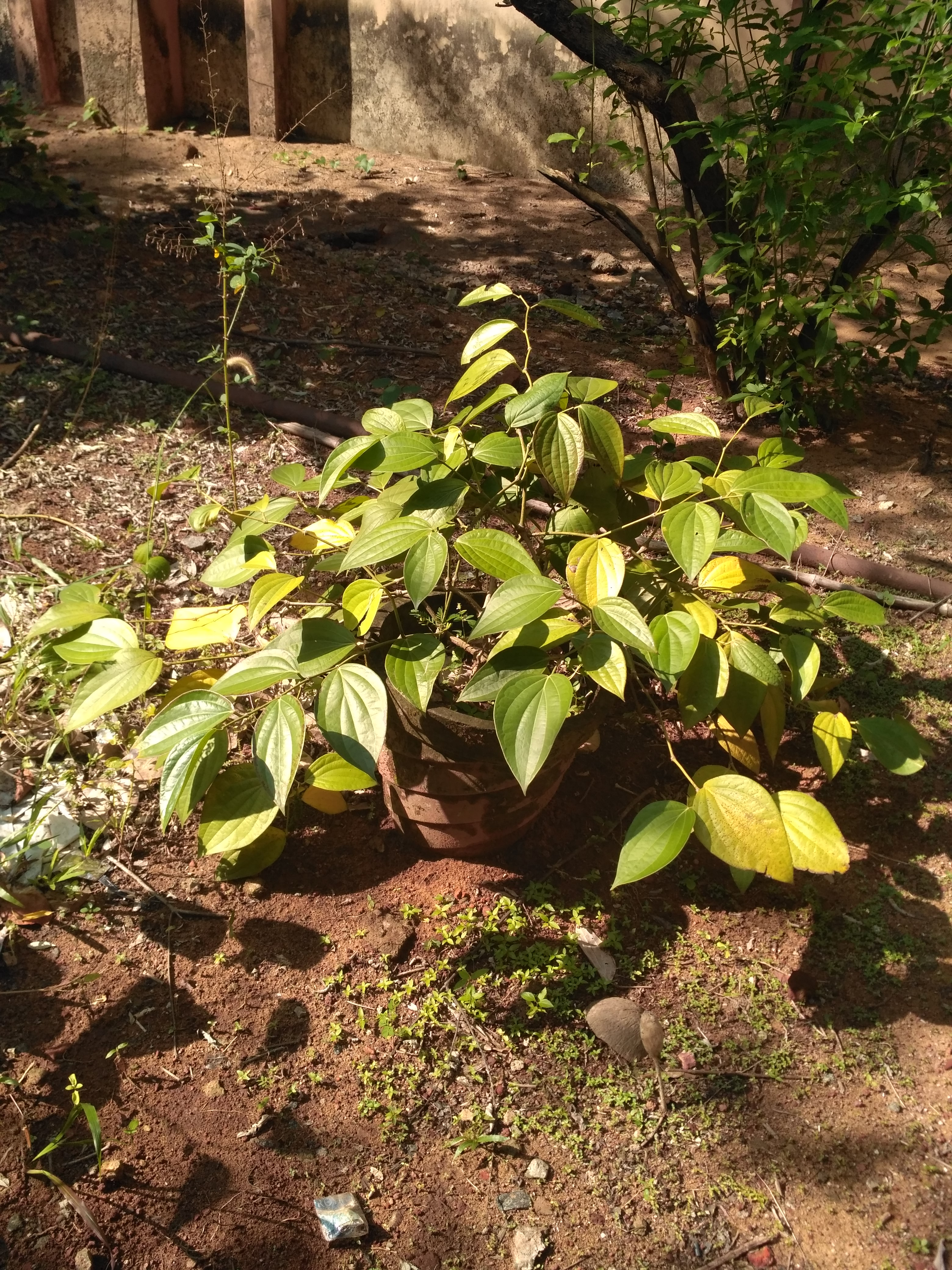 picture of bush pepper